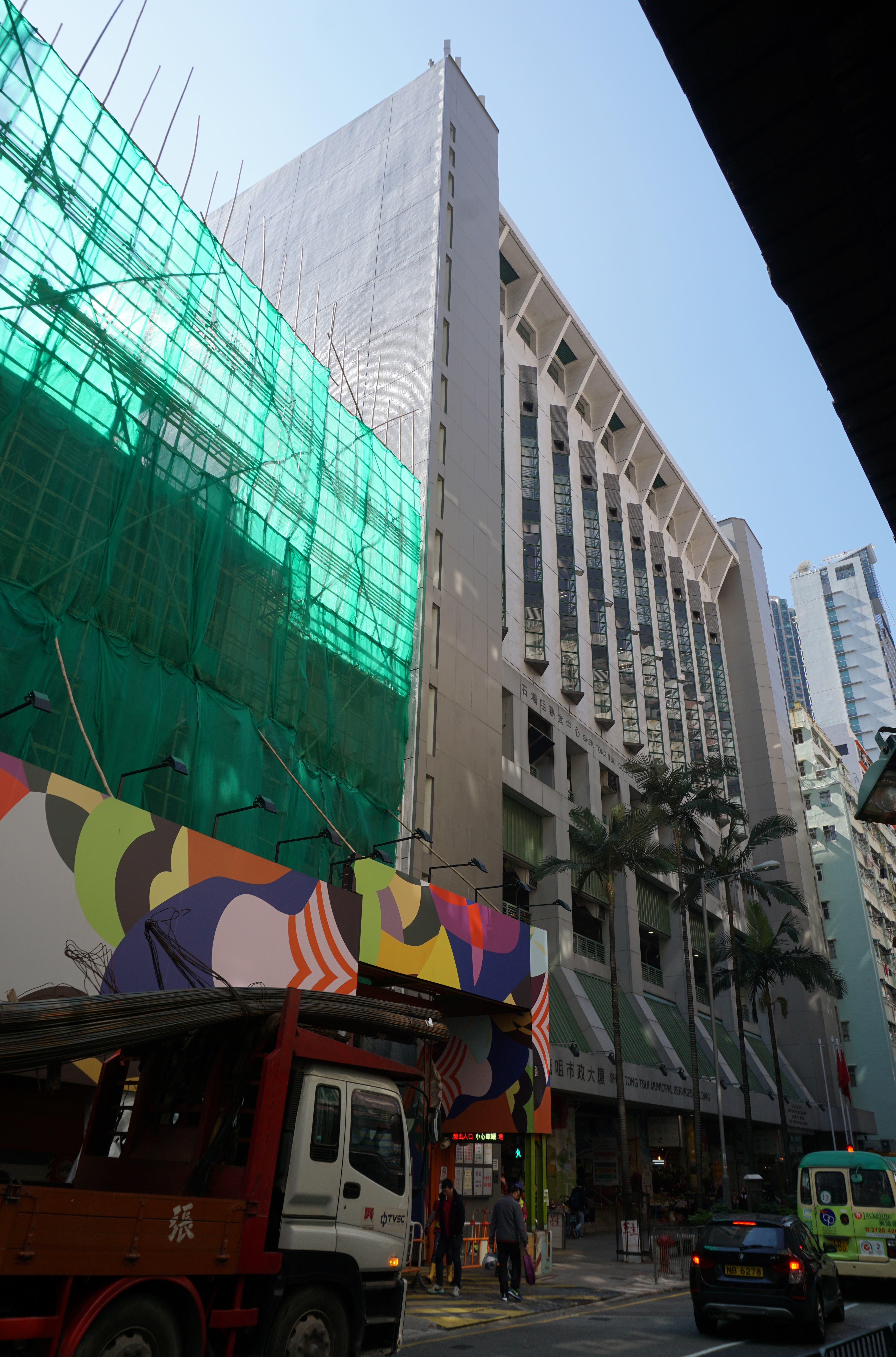 Municipal Services Building in Shek Tong Tsui, Hong Kong.